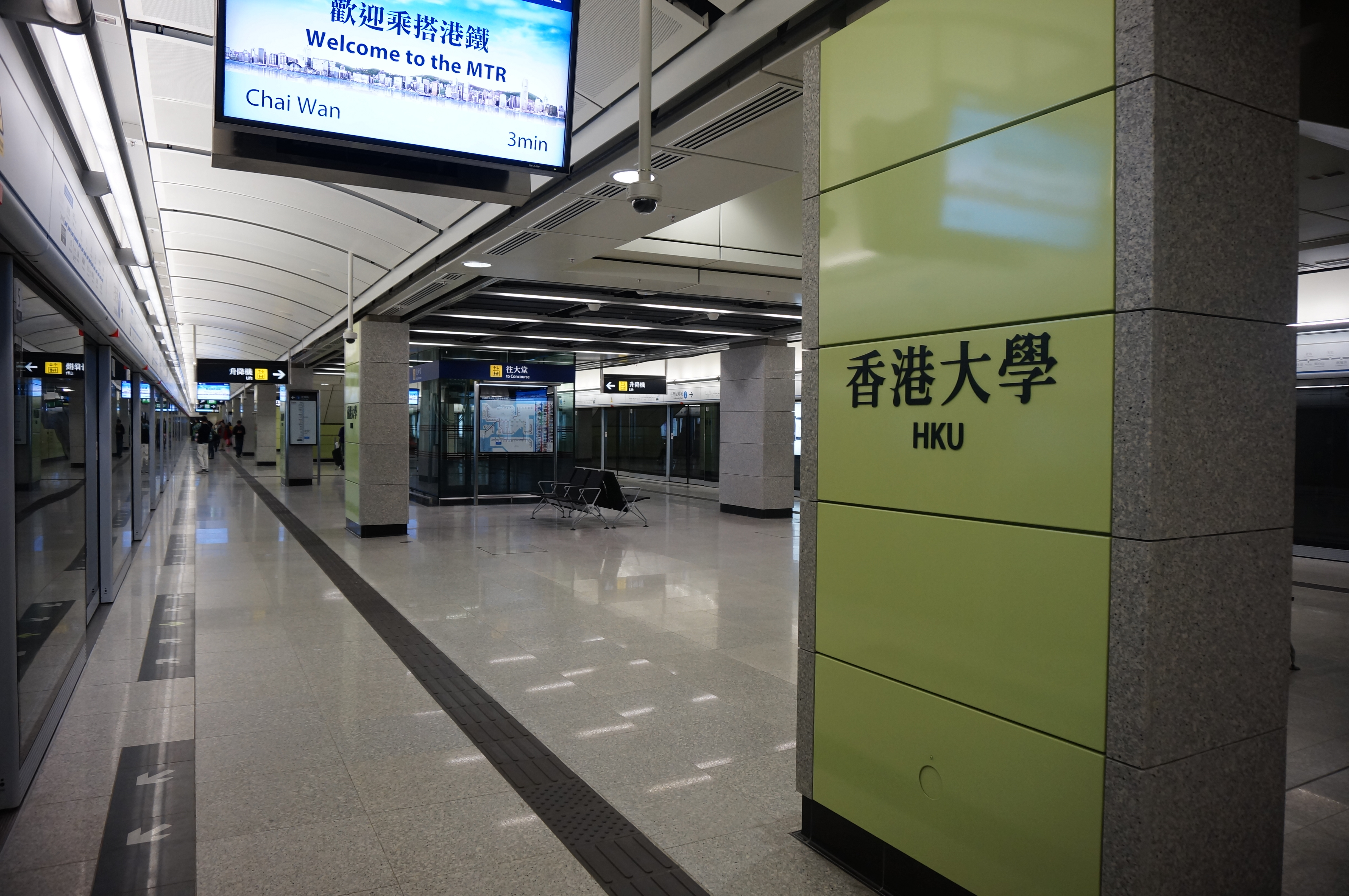 Passenger information display on MTR HKU station platform